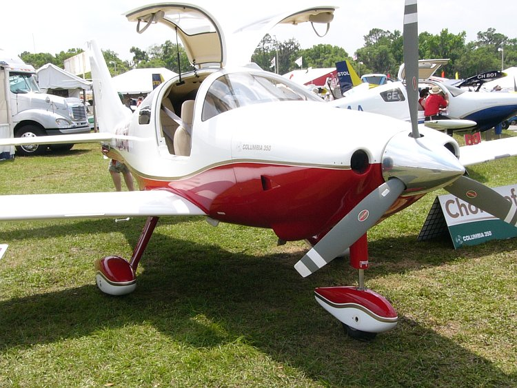 Photo of a Columbia 350, now a Cessna 350 (N2546W) at Sun 'n Fun 2006.